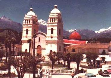 Photograph of the old Huaraz (Perú) Cathedral before it was destroyed by the earthquake of 1970